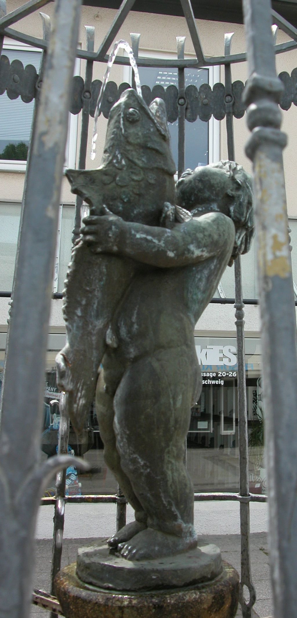 Brunswick, Germany: Little boy holding a fish on the “Fischmännchen”-Fountain.